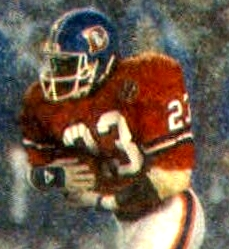 Denver Broncos running back Sammy Winder rushing the ball against the Green Bay Packers during an October 15, 1984 home game at Mile High Stadium.